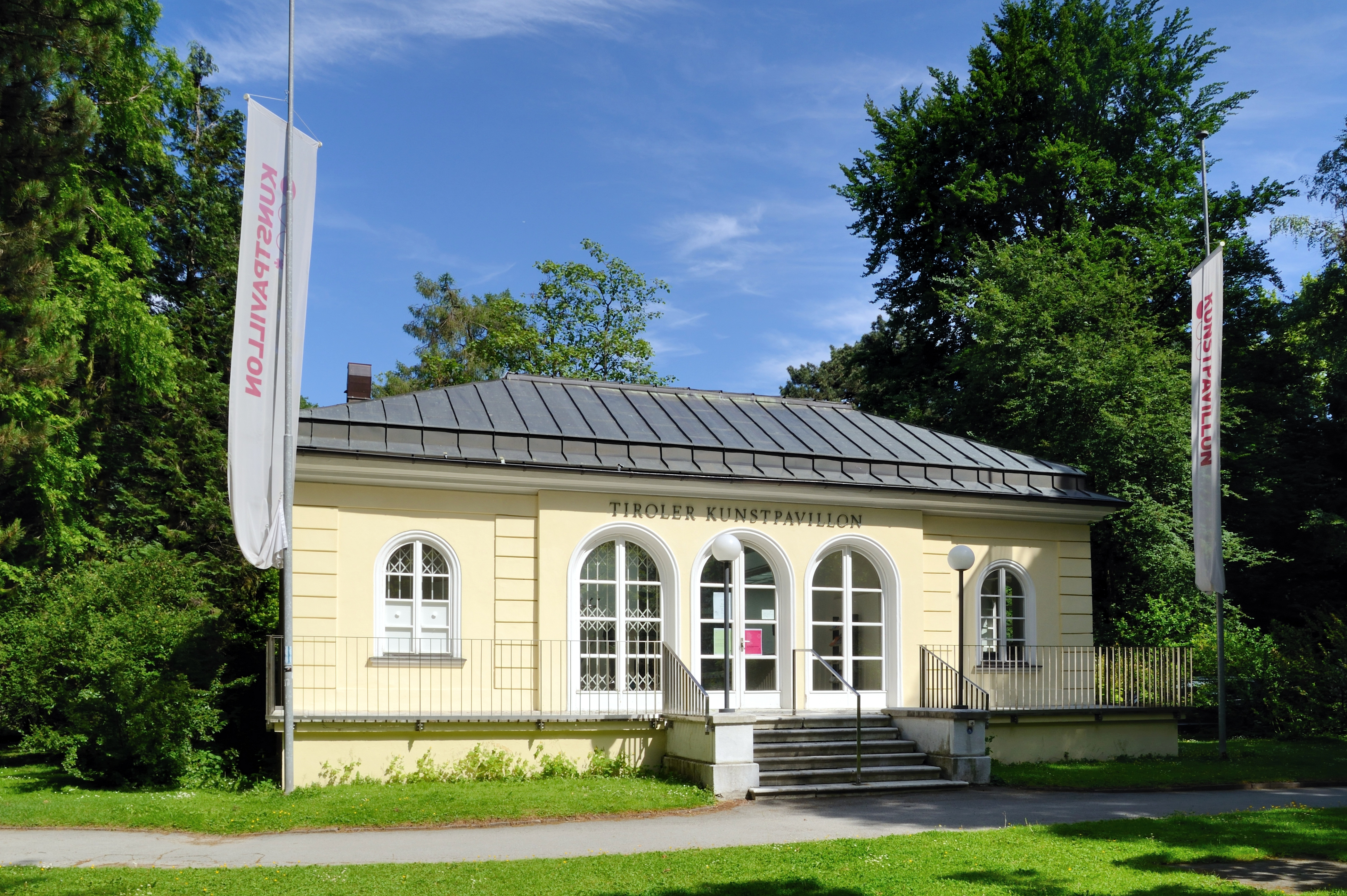 Innsbruck: Tyrolean art pavillon at courtgarden